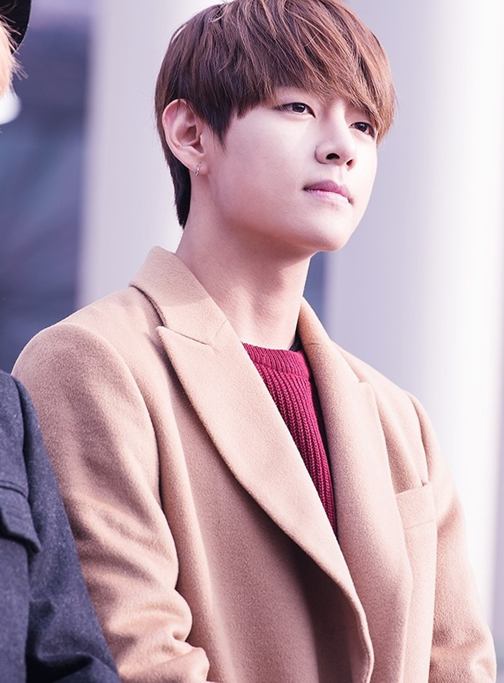 Kim Tae-hyung at K-Star Road Opening Ceremony on December 21, 2015.